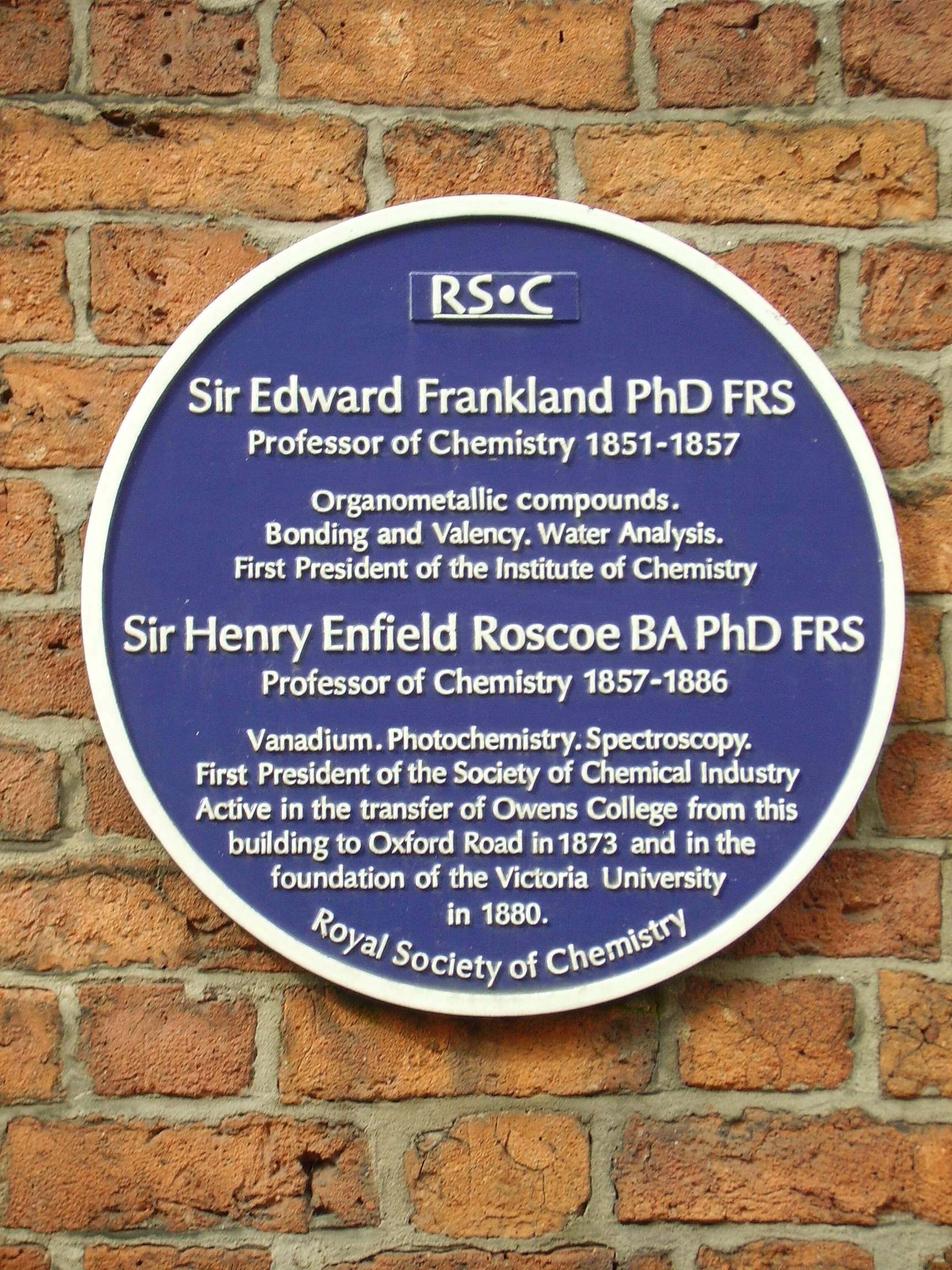 RSC plaque, former County Court, Quay Street, Manchester